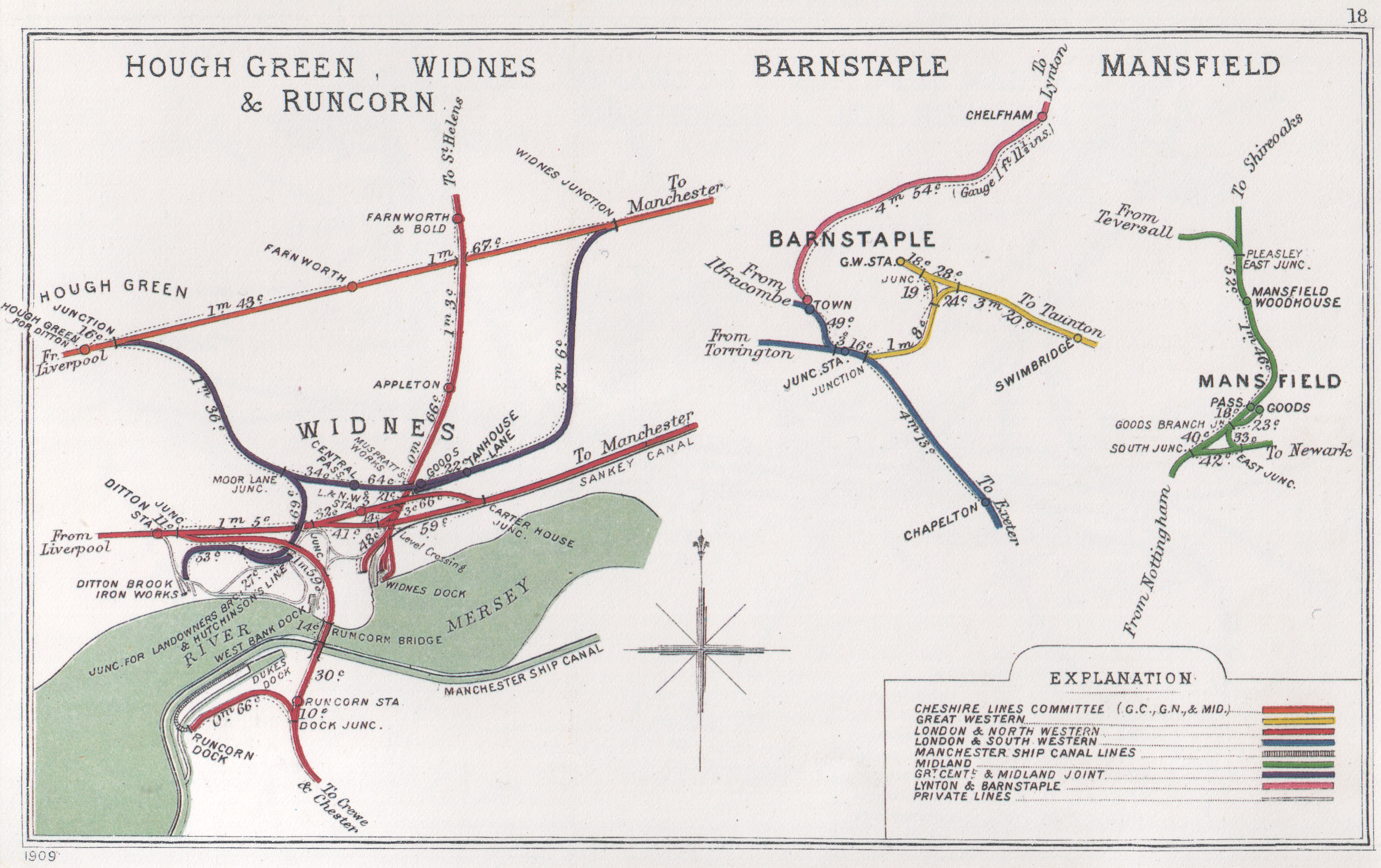 Pre Grouping railway junctions around Hough Green, Widnes & Runcorn; Barnstaple; Mansfield